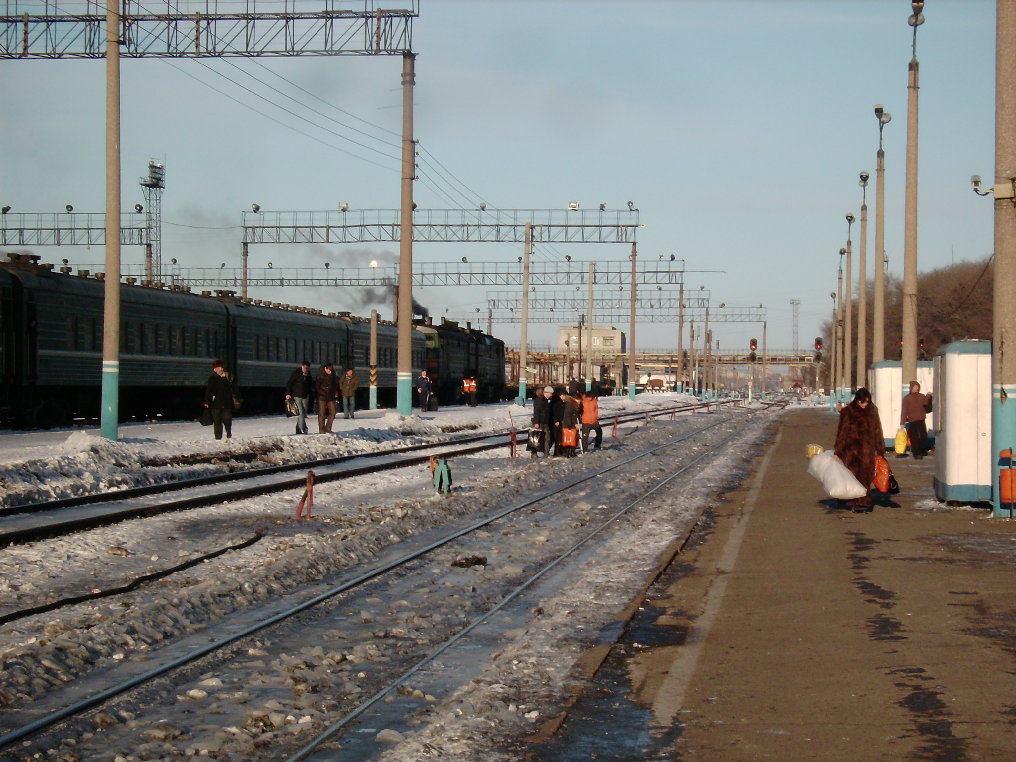 Ulyanovsk Centralny railway station